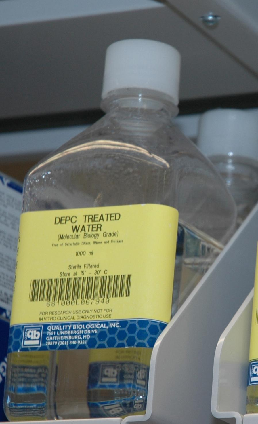 itle: Technology: Lab Description: Bottles in a lab. Subjects (names): Topics/Categories: Technology -- Lab Type: Digital Color Source: National Cancer Institute Author: Diane A. Reid, Photographer Date Created: January 27, 2005 Date Added: 6/1/2005 Reuse Restrictions: None - This image is in the public domain and can be freely reused. Please credit the source and/or author listed above.